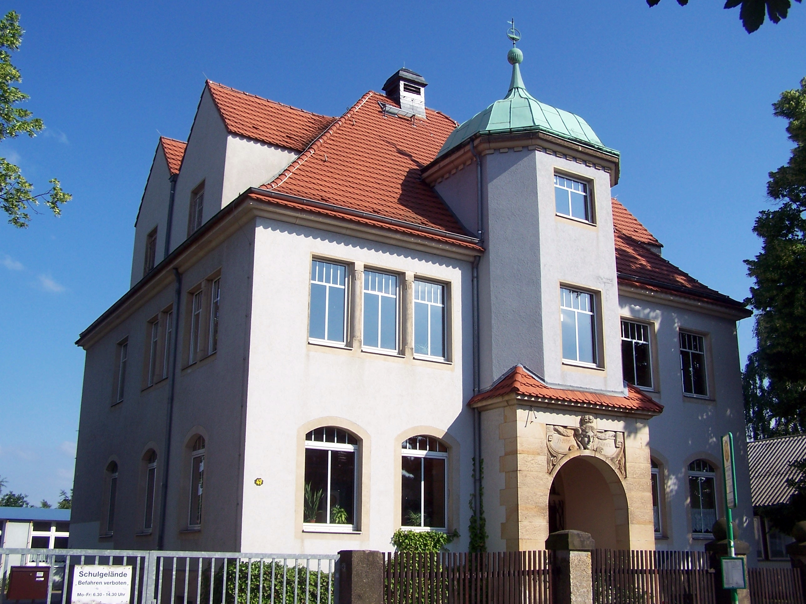 This building used to be the townhall of Kötitz (today part of Coswig, Saxony) and now is a special school for children with special emotional needs.